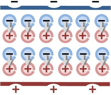 Dipole array showing surface charge